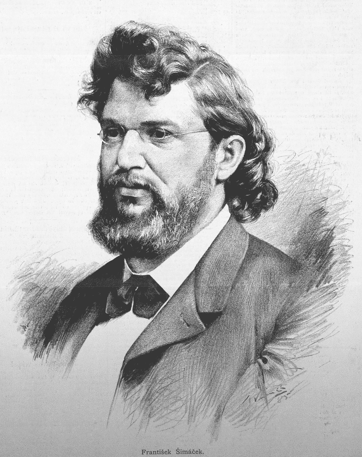 Portrait of František Šimáček (1834 - 1885), Czech journalist and editor